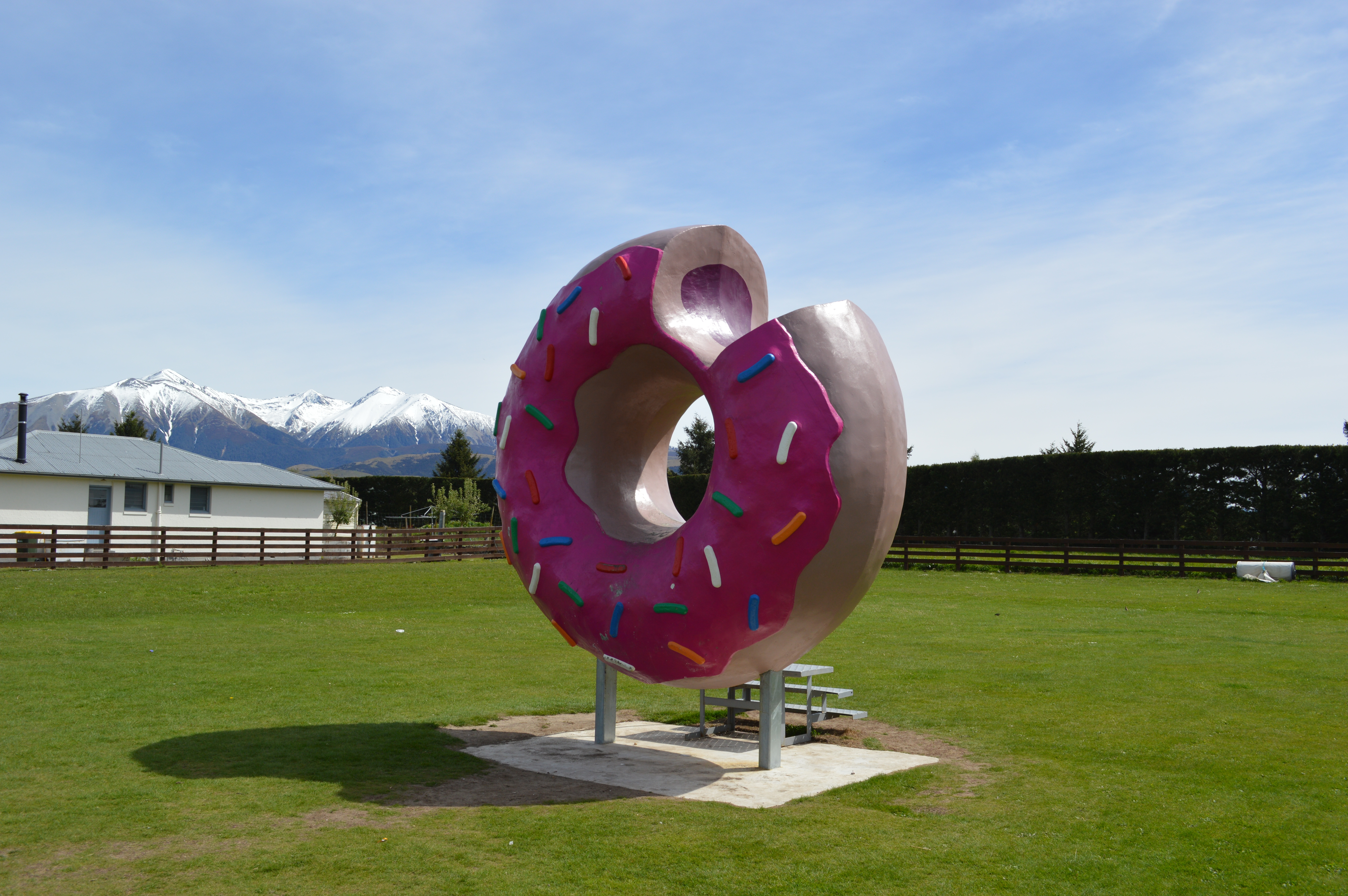 The third iteration of the Springfield Donut at Springfield, New Zealand